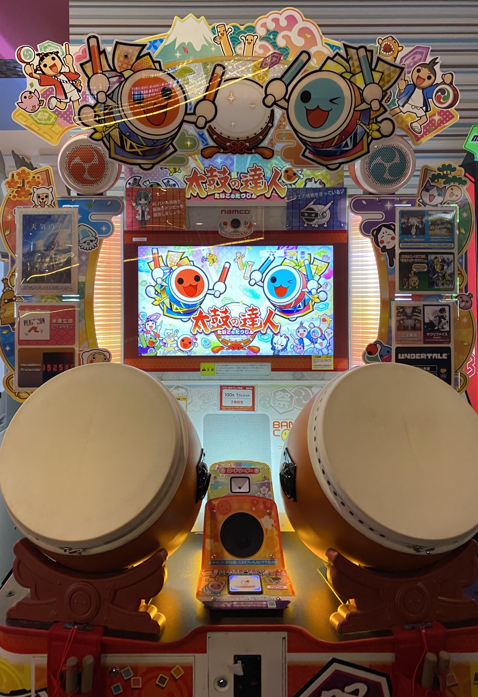 太鼓の達人 ニジイロVer.の筐体 20.5.26 岐阜県某所で撮影